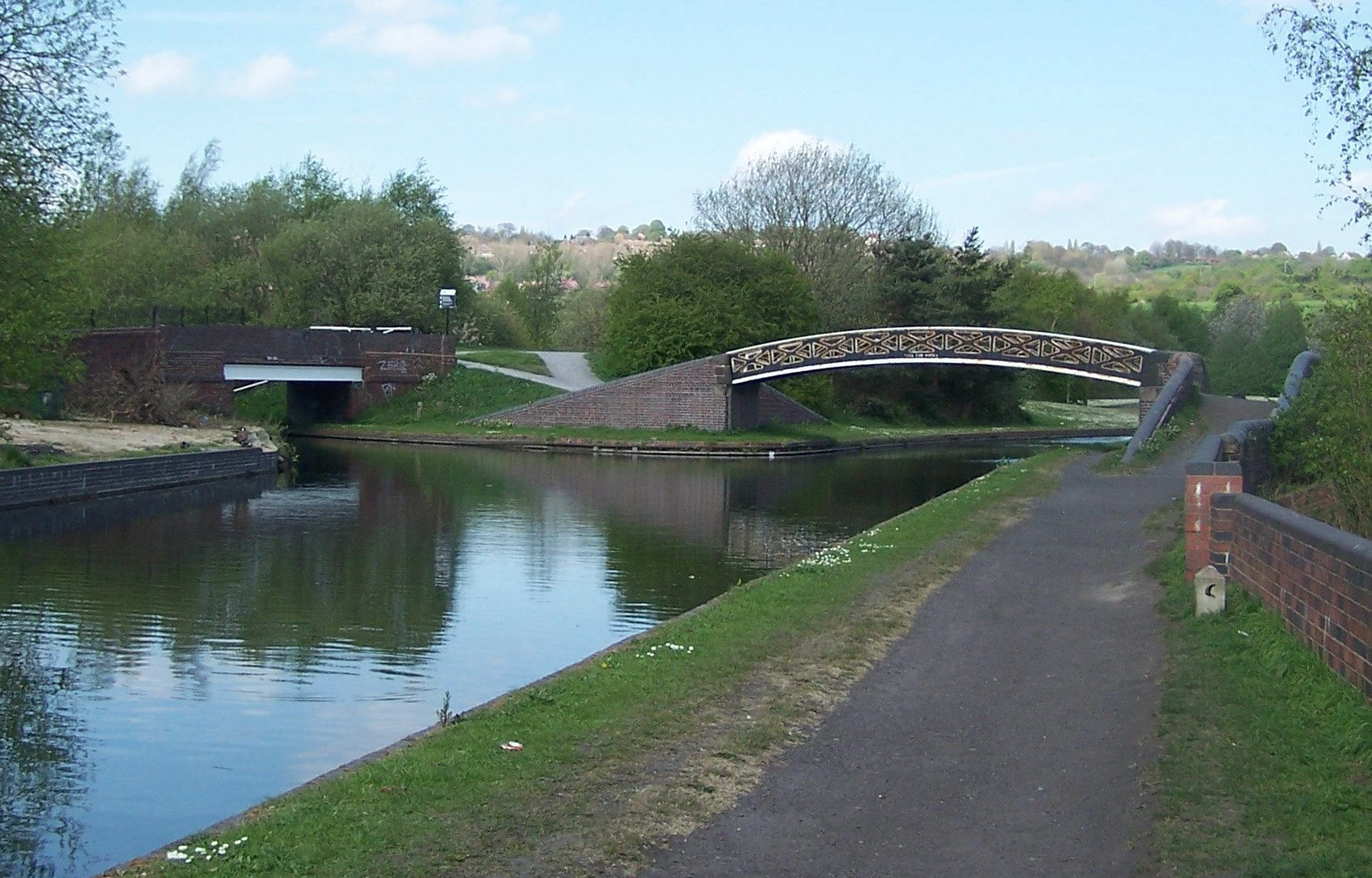 Dunn's Bridge over the junction of Bumble Hole Branch Canal on the left with Bumble Hole Bridge on the right. The bridges were constructed in 1858 and were cast at the Toll End Works in Tipton.